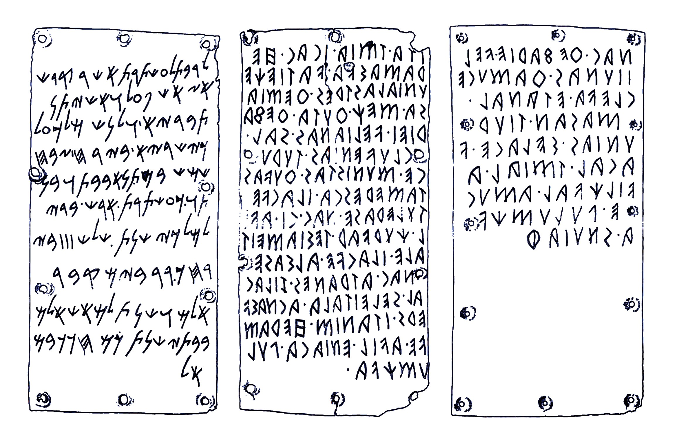 The "Pyrgi tablets". Laminated sheets of gold with a treatise both in Etruscan and Phoenician languages. From Etruscan Museum in Rome (Museo di Villa Giulia).